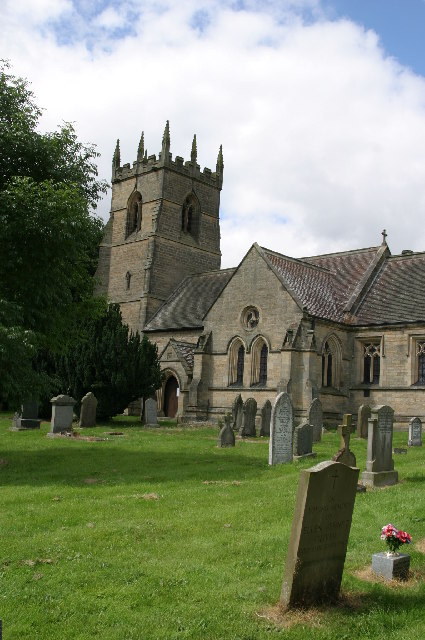 St James' Church, Newton Hall near Corbridge.